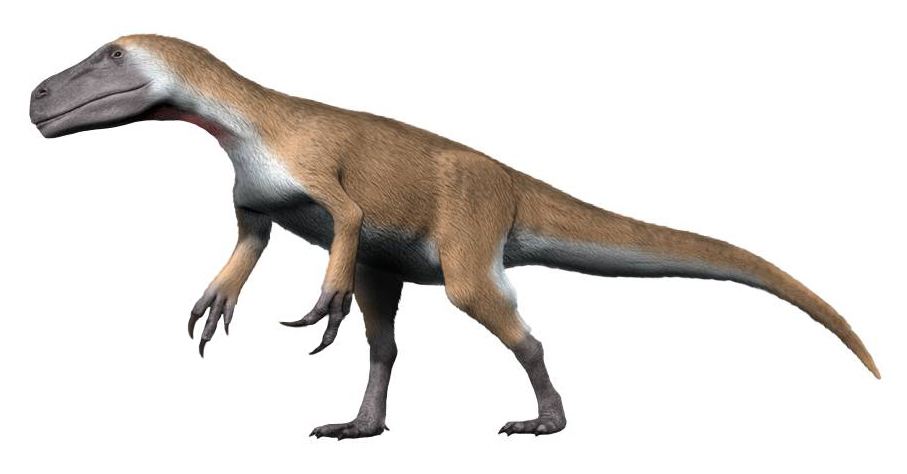 Life reconstruction of Murusraptor barrosaensis